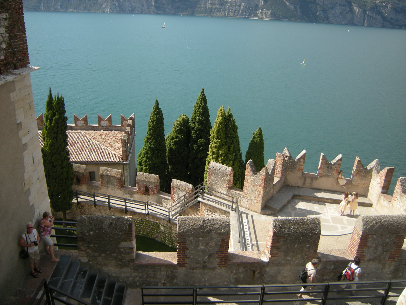 Malcesine: the castle